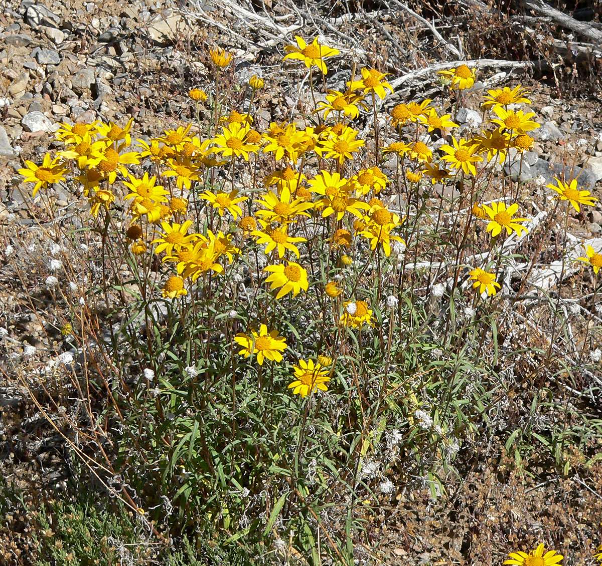 Heliomeris multiflora var. nevadensis in Kyle Canyon, Spring Mountains, southern Nevada